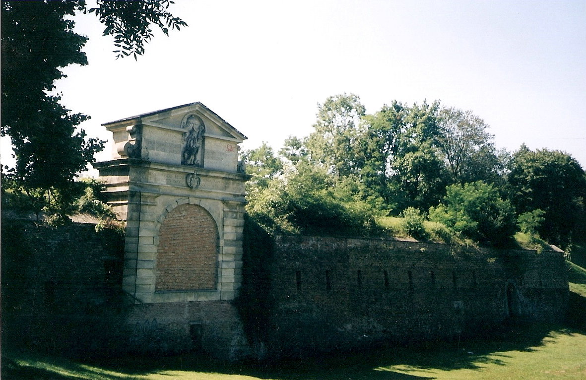 The Old Lubelska Gate